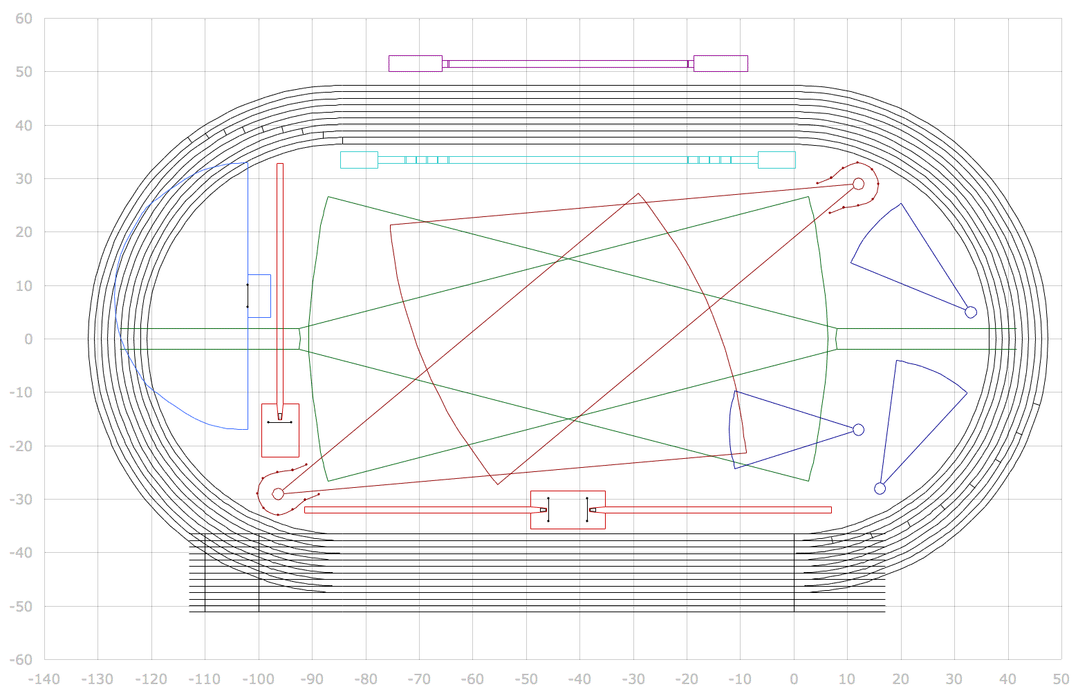 lay out of an athletic track